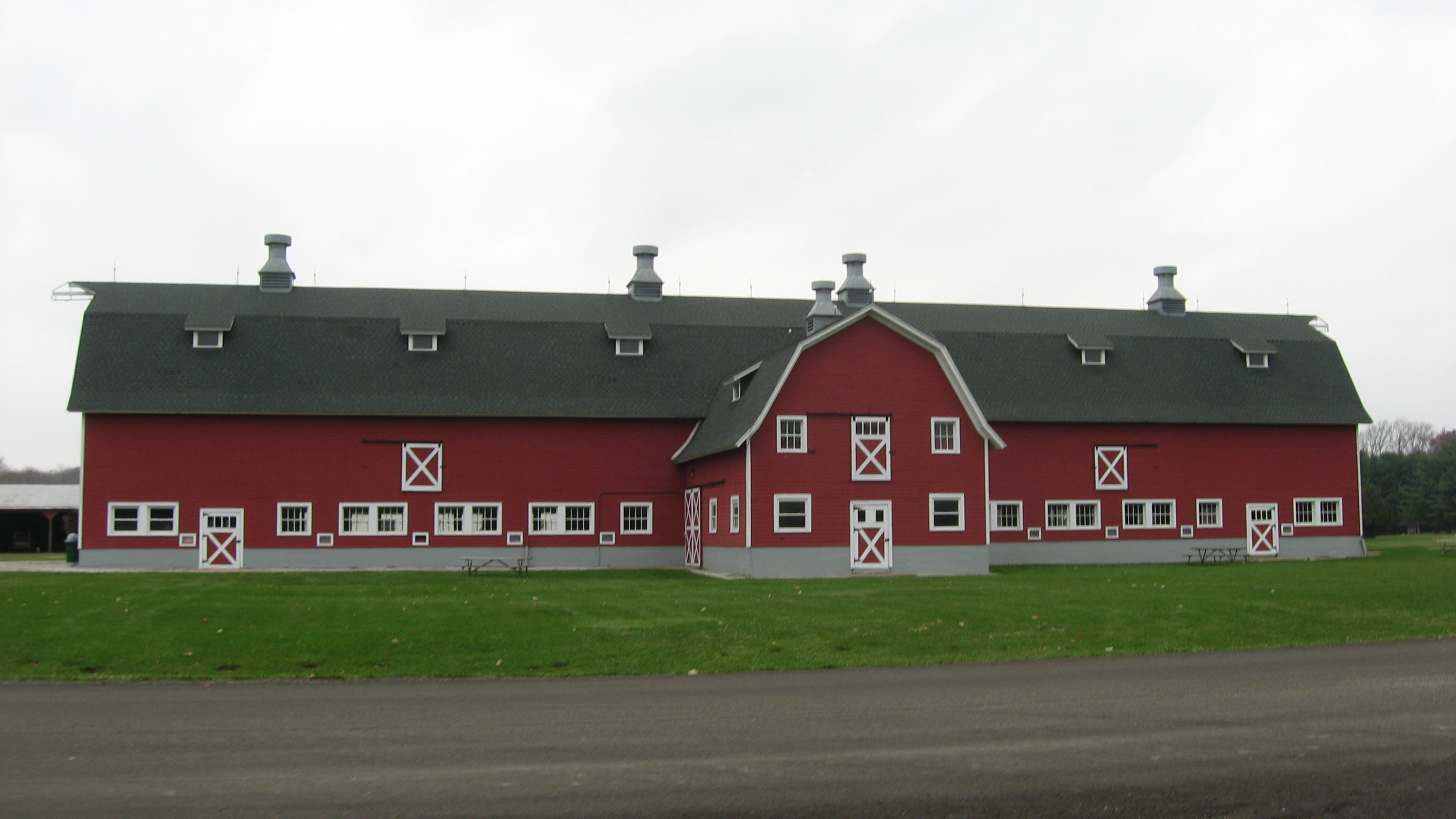 Dairy barn at St. Patrick's Farm, located in St. Patrick's County Park north of South Bend in Clay Township, St. Joseph County, Indiana, United States. Built in 1920, it and the rest of the farm compose a historic district that is listed on the National Register of Historic Places.